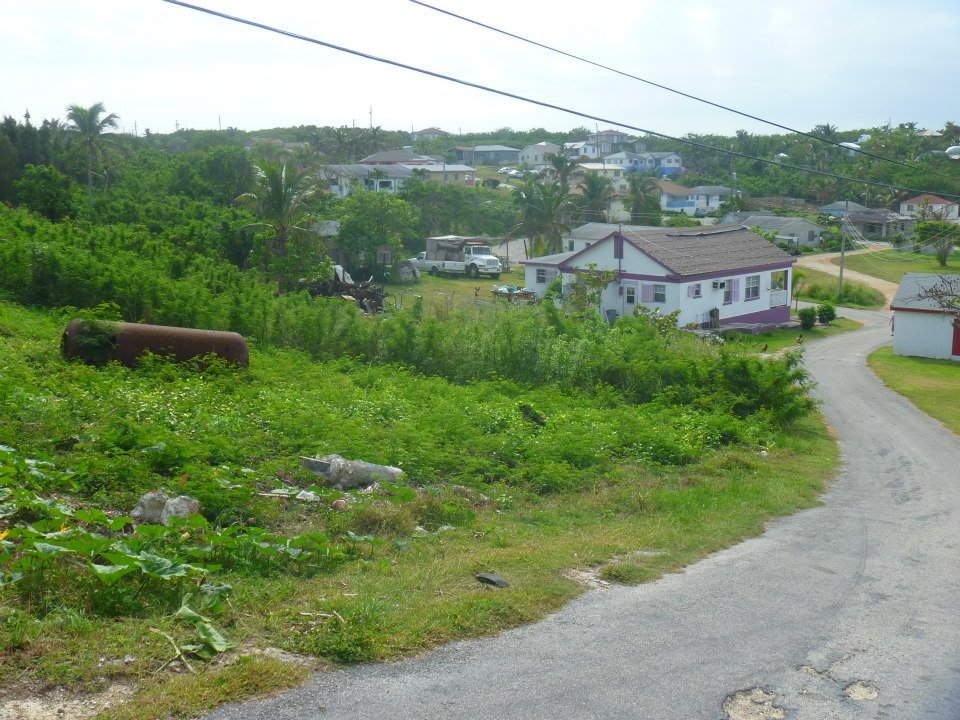 Gregory Town, Eleuthera, Bahamas. December 2012.